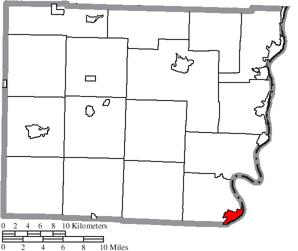 Map of the municipal and township boundaries of Belmont County, Ohio, United States, as of the 2000 census, with the location of the village of Powhatan Point highlighted. Township borders are shown only in unincorporated areas in order to differentiate incorporated and unincorporated areas more clearly.